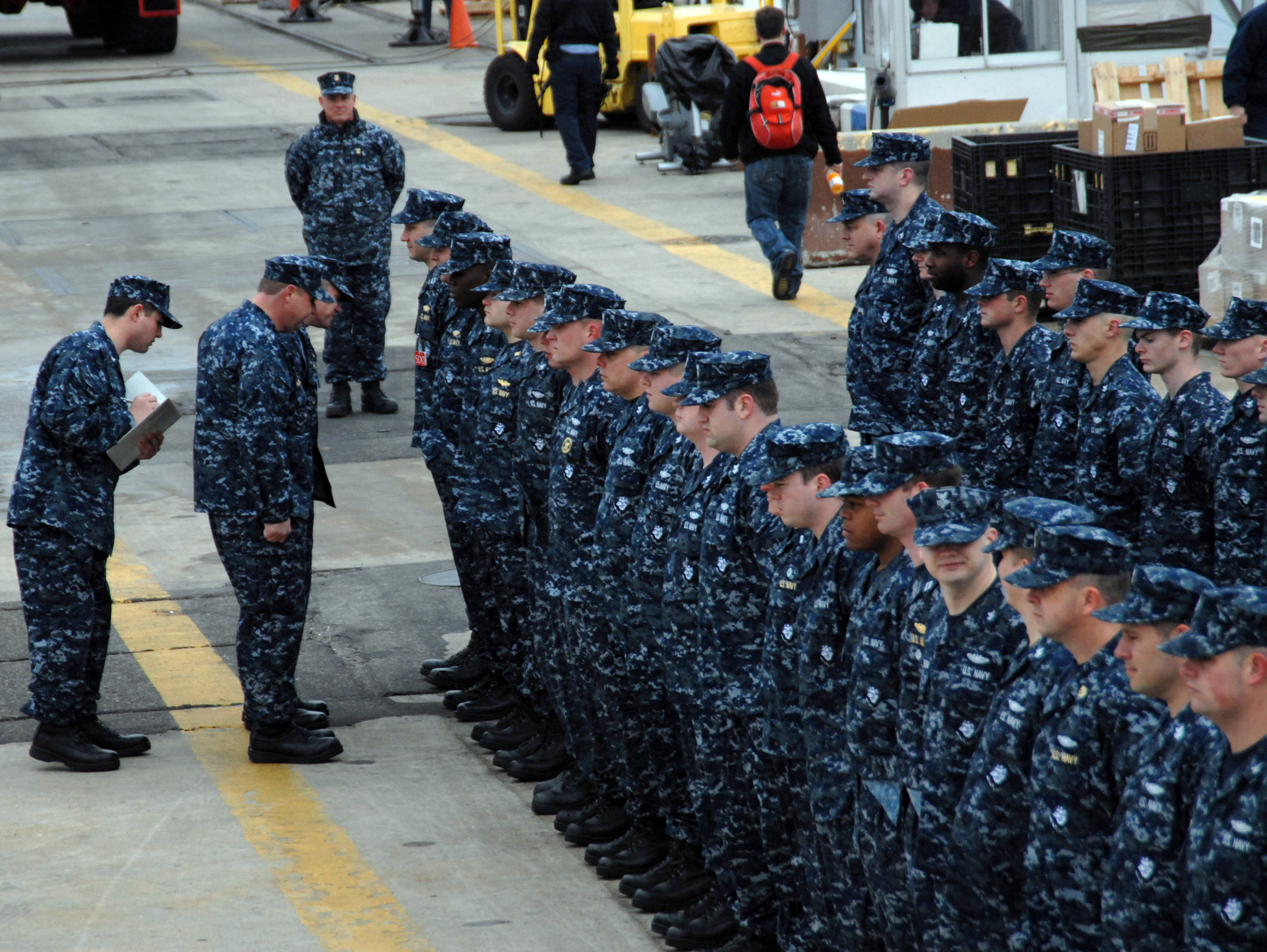 Cmdr. Wesley R. Guinn, commanding officer of the Los Angeles-class attack submarine USS Scranton (SSN 756), and Chief of the Boat Master Chief Machinist's Mate Steven Nordman inspect the crew in the new Navy working uniform. Scranton is the first submarine all crew members equipped with the new uniforms.